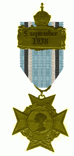 Memorial Cross of the Amsterdam Civilian Guard